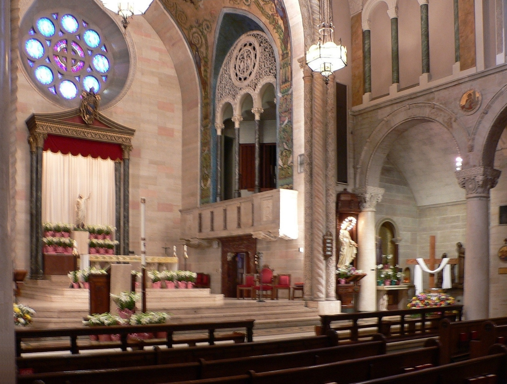 St. Anthony of Padua Church, Wilmington, interior